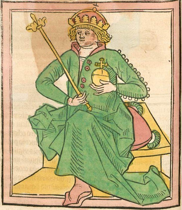 Charles I of Hungary